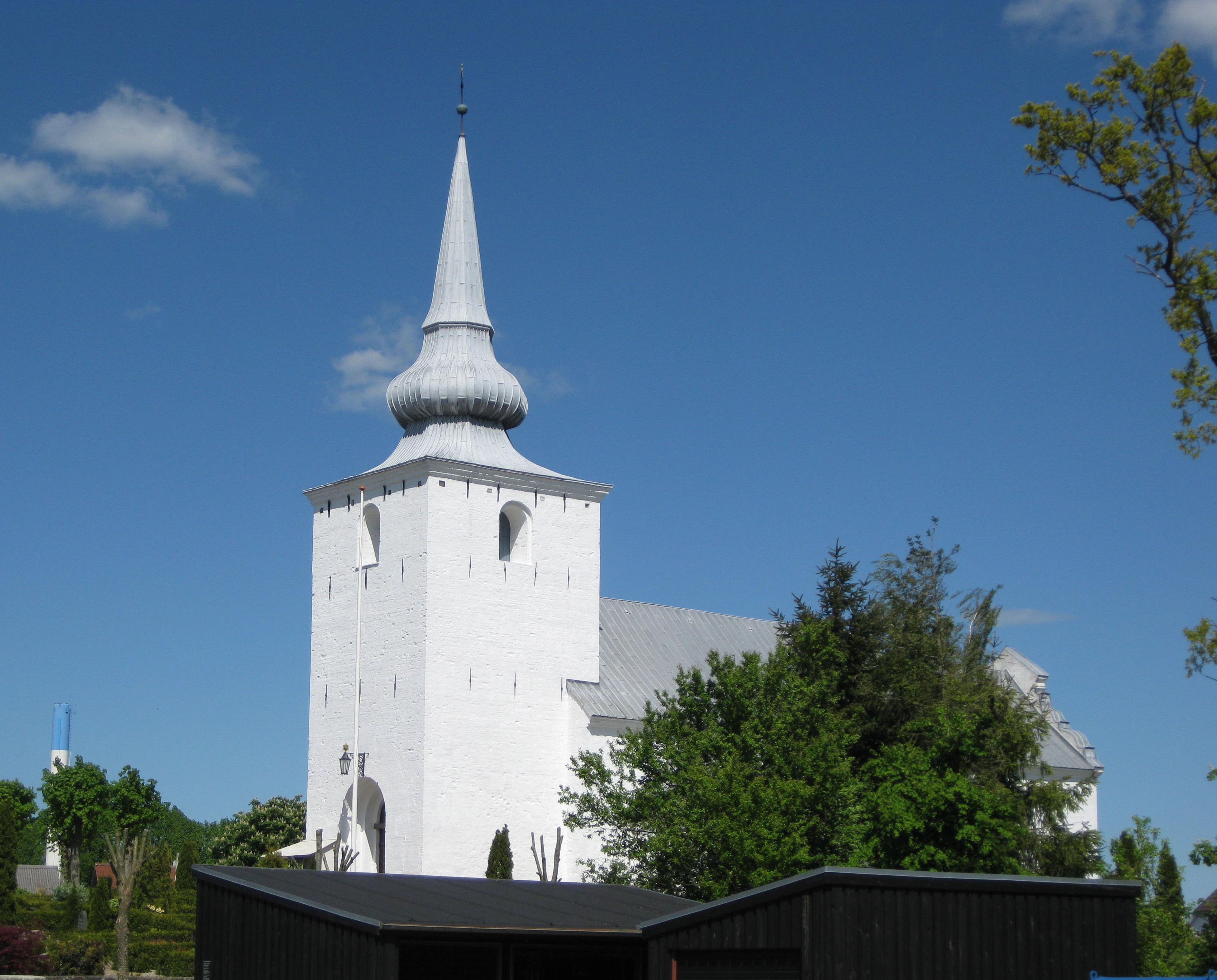 The church "Bredsten Kirke" in the small town "Bredsten". The town is located in South-Central Jutland, Denmark.